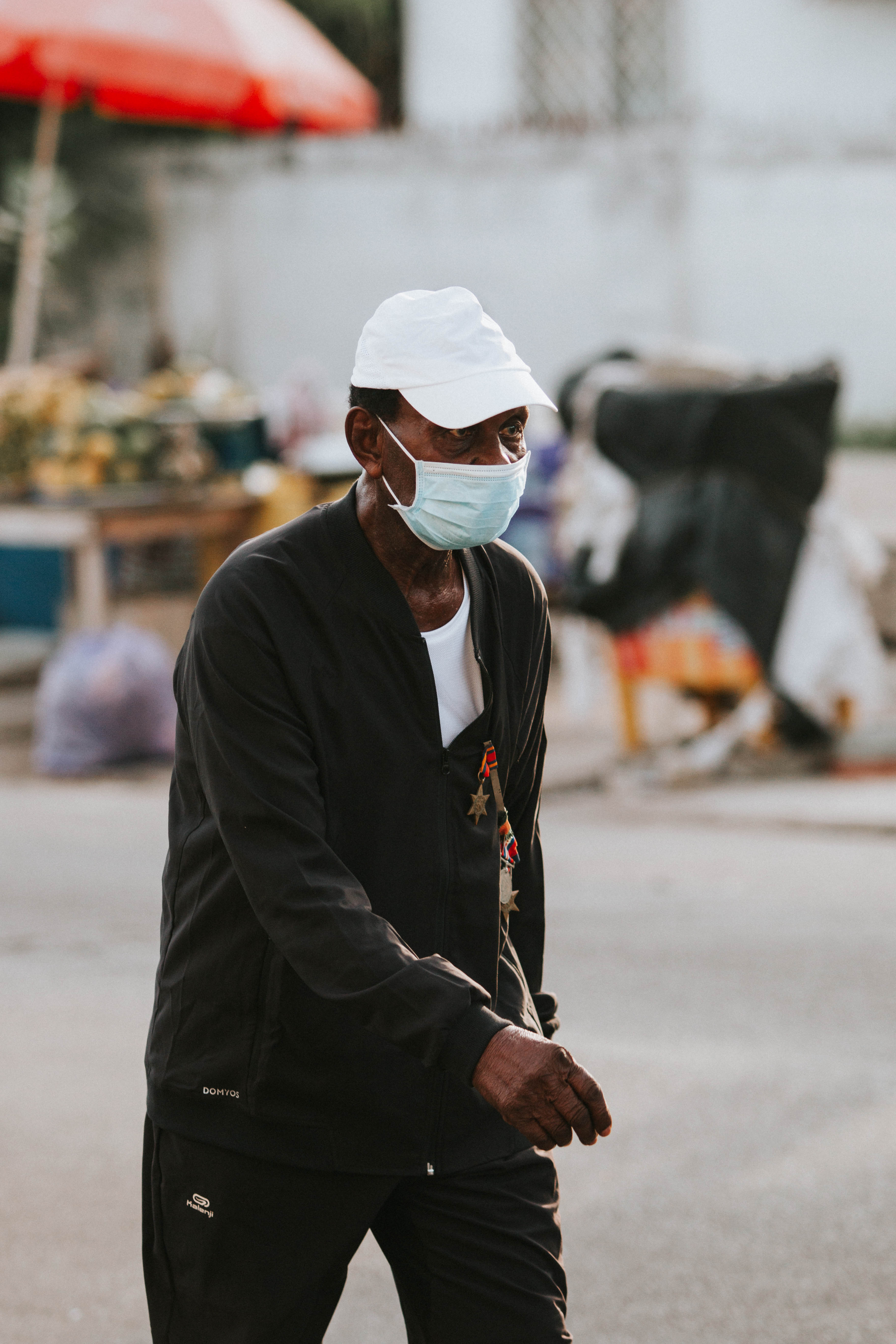 An image of World War 2 Ghanaian Veteran Pte Hammond taking a walk on the streets of Osu, Accra.